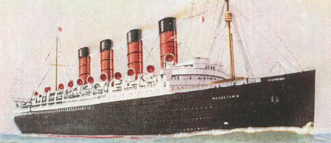 RMS Mauretania in cigarette card.